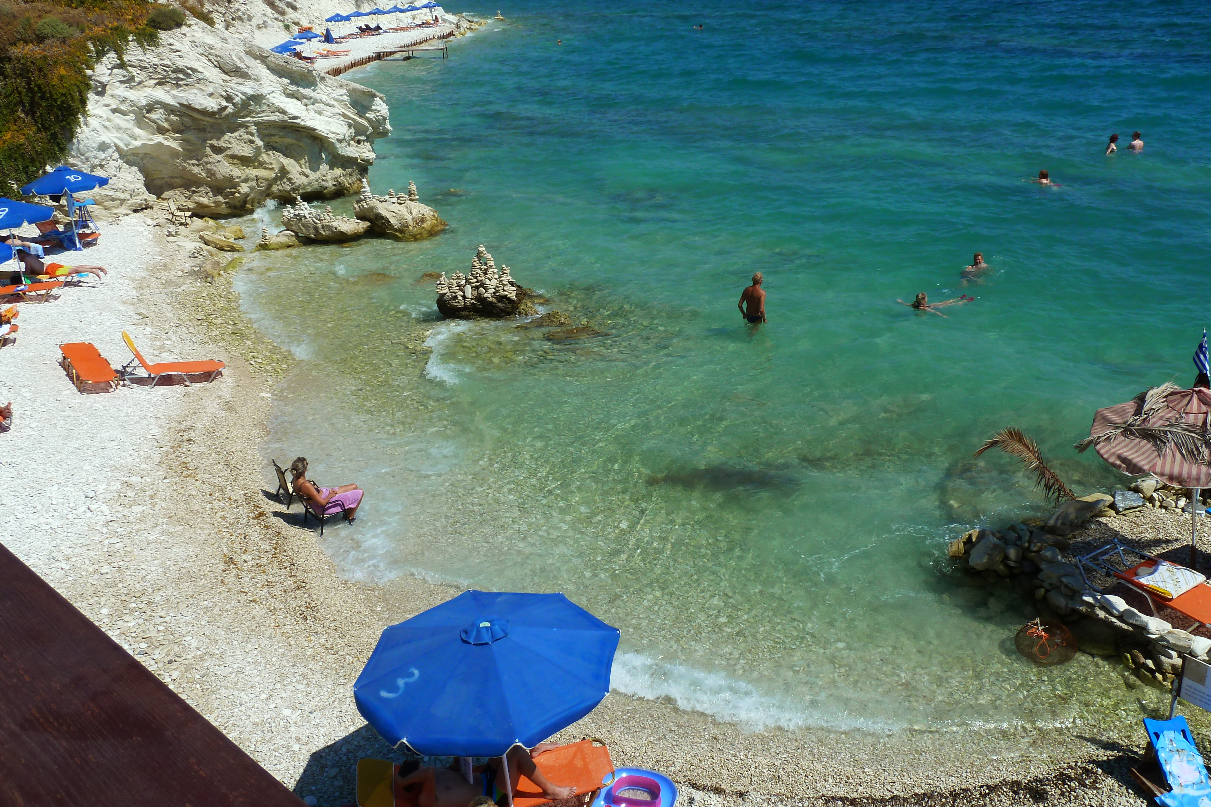 Beach "Pappa Beach" on the Greek island of Samos in Ireo village